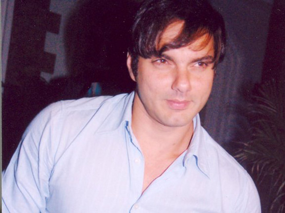 Sohail Khan at marriage bash of Aashish Chaudhary and Samita Bangargi